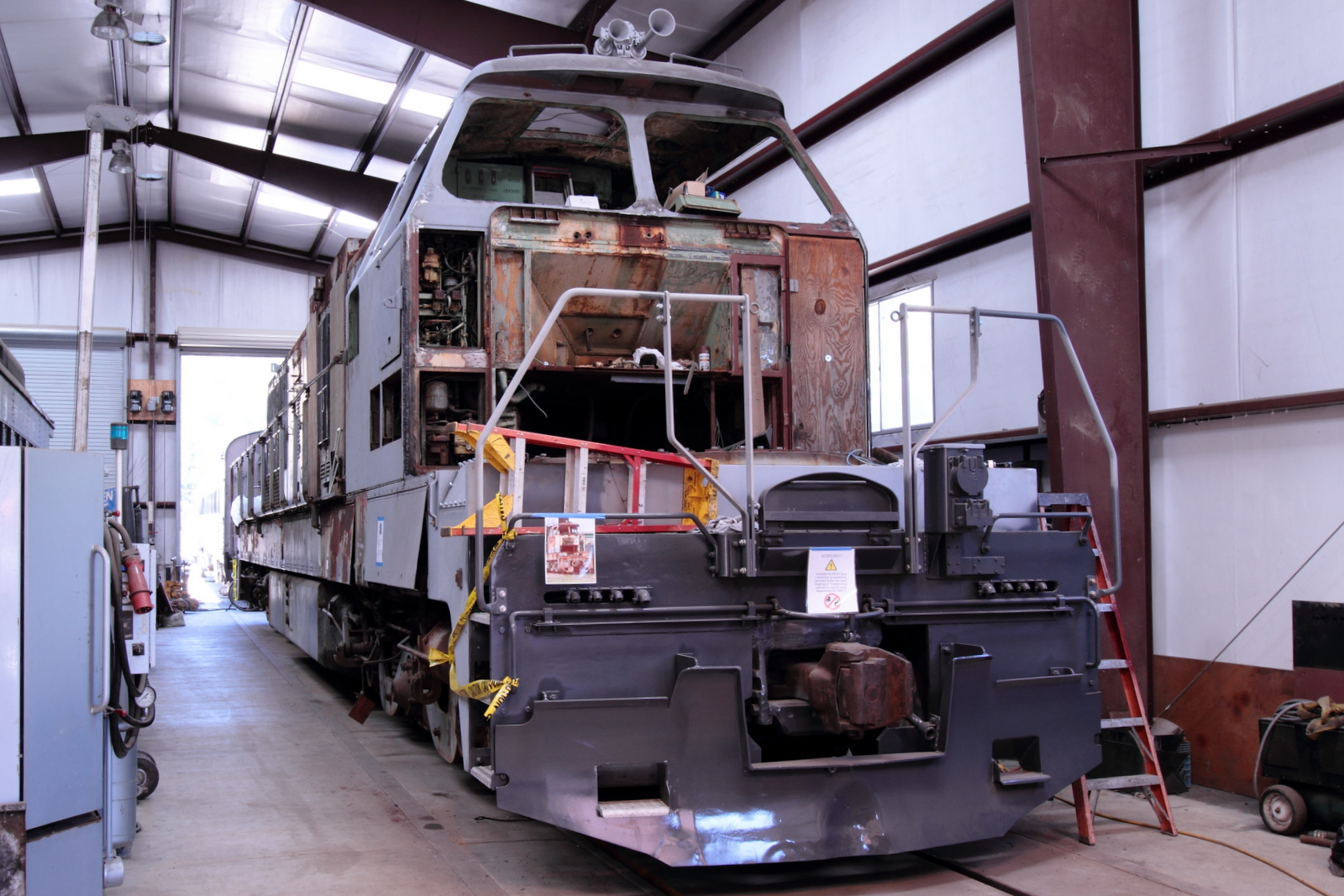 Southern Pacific 9010 under restoration at Niles Canyon Brightside Yard